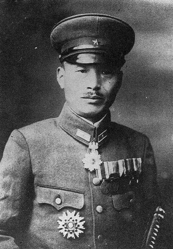 General Tomitaro Horii (1890-1942)